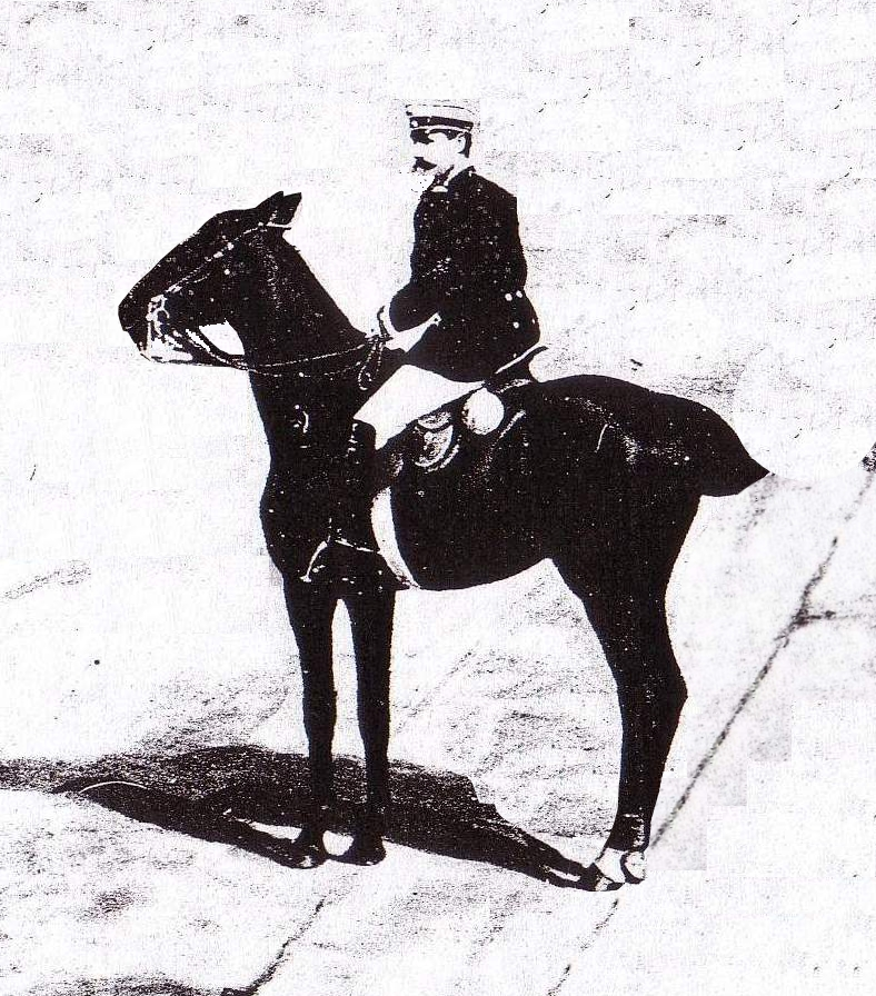 Military endurance ride Berlin-Vienna, Vienna-Berlin, 1892, cropped and reworked version, Premierleutnant Freiherr von Reitzenstein of the Kürassier-Regiment Nr. 4 on the Senner mare called "Lippspringe"